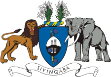 Eswatini Coat of Arms converted into PNG format using Gimp.